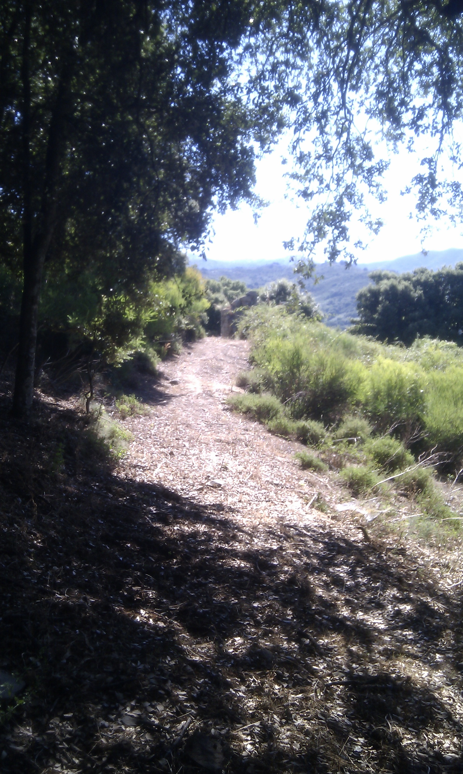 roman chapel from Panicala in Corsica